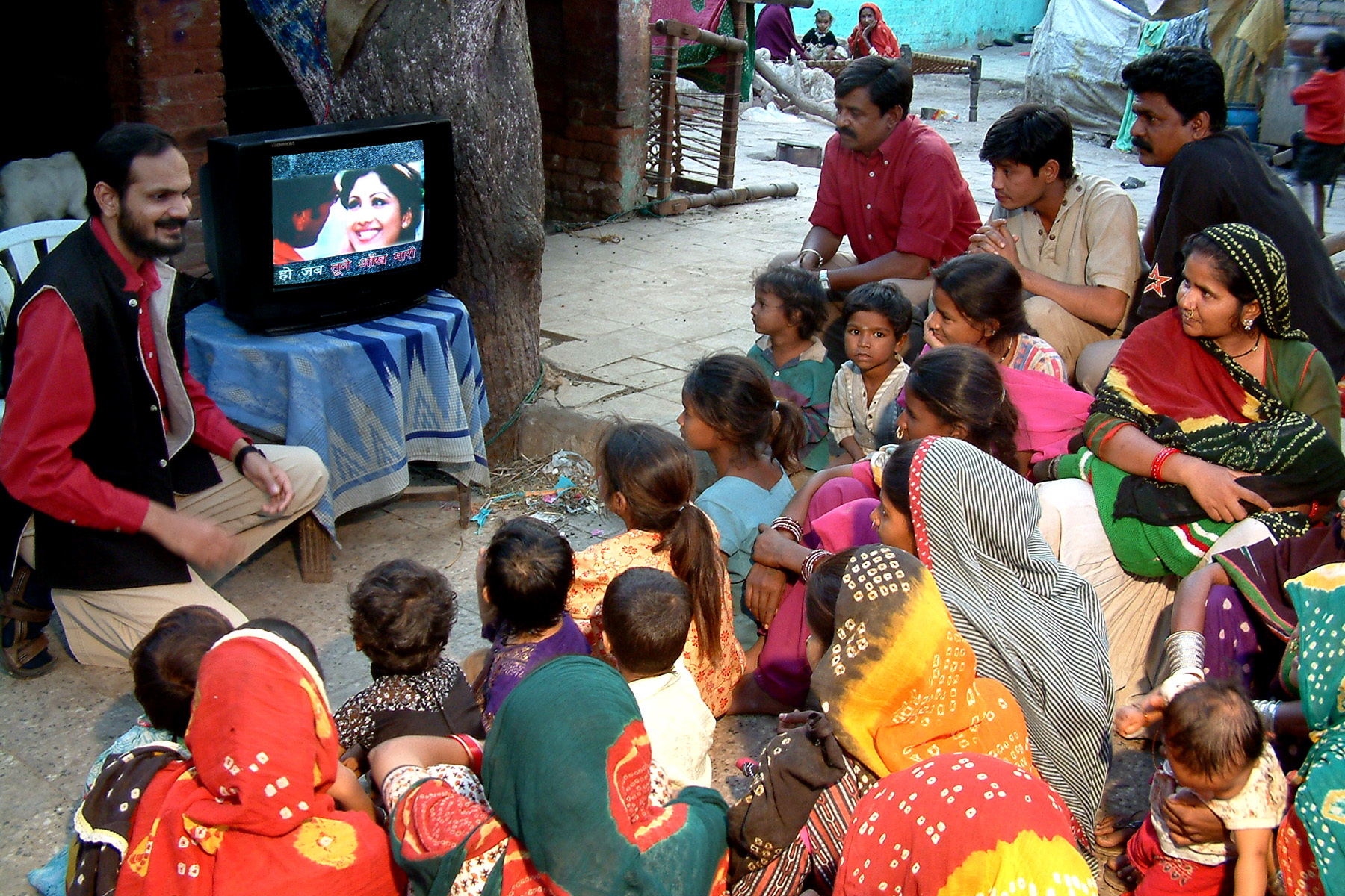 Brij Kothari (left), Indian academic and a social entrepreneur, speaking to a group of children